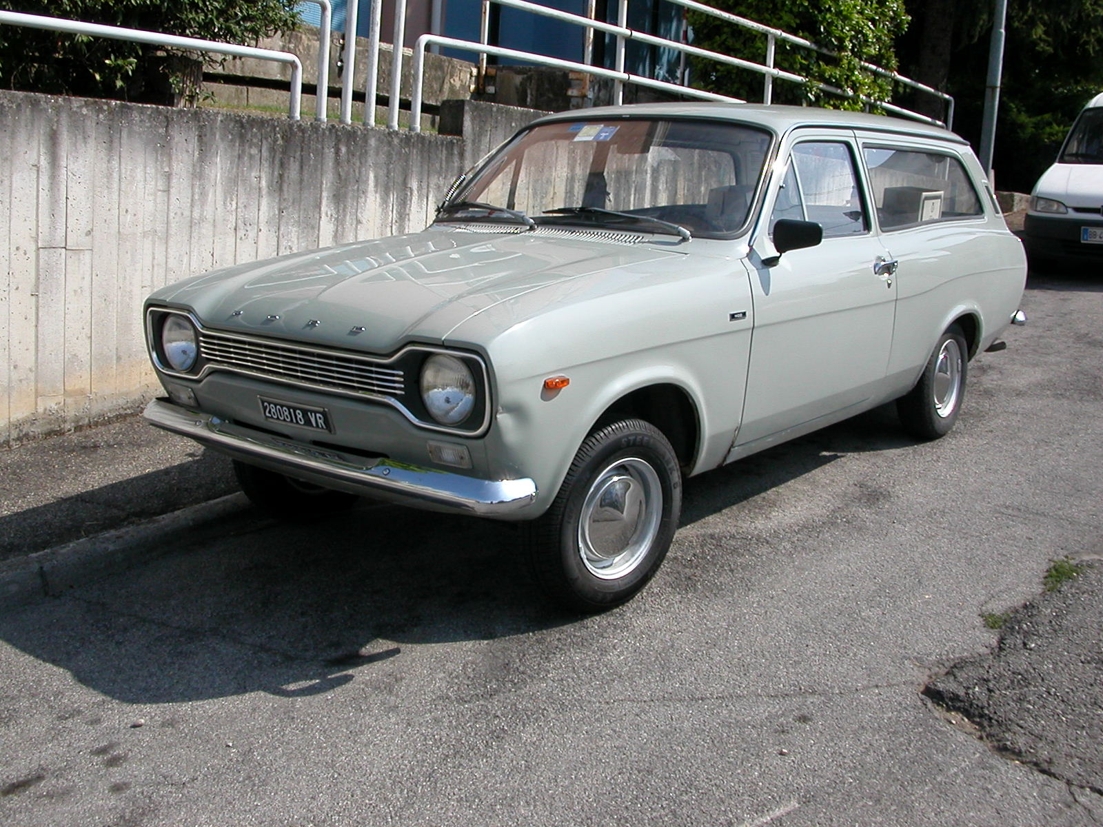 Ford Escort MkI Station Wagon